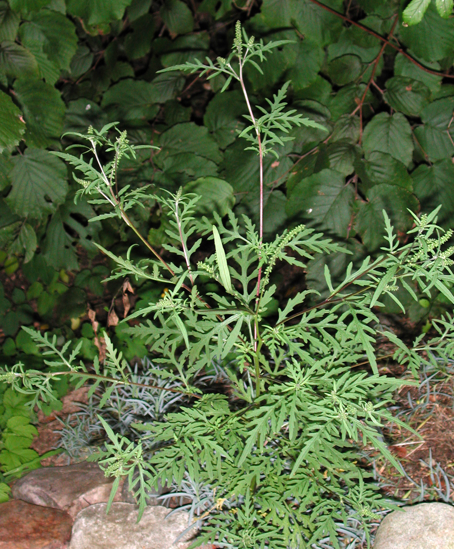 Neophytic Ambrosia in Hamburg, Germany (Ambrosia artemisiifolia)